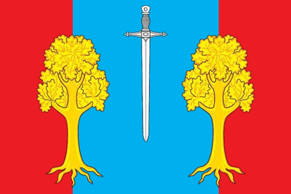 Flag of Pavlovskoe rural settlement, Voronezh Region, Russia